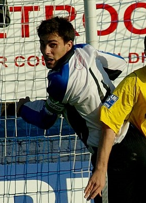 Chris Smith playing for Worcester City against Southport at St George's Lane, Worcester on 20 October 2007